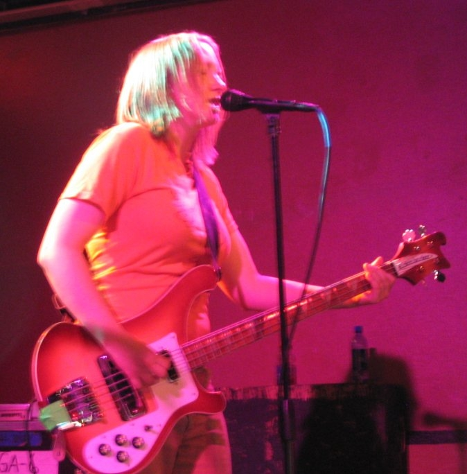 American musician Jody Bleyle.